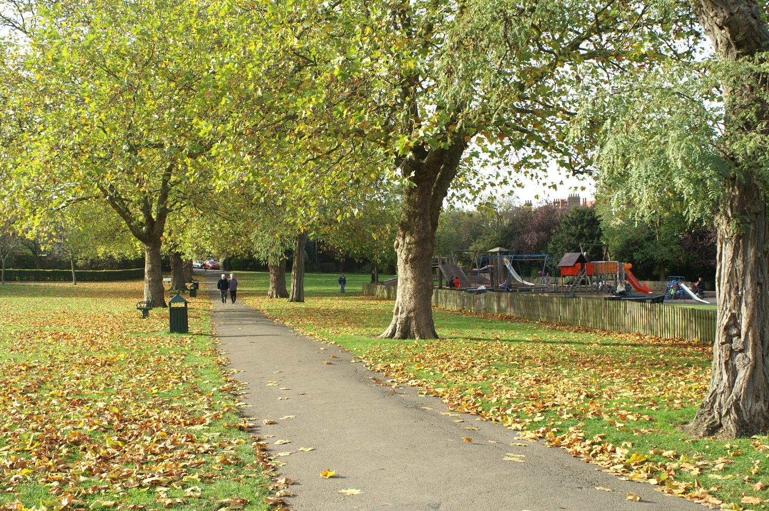 Priory Park in Autumn